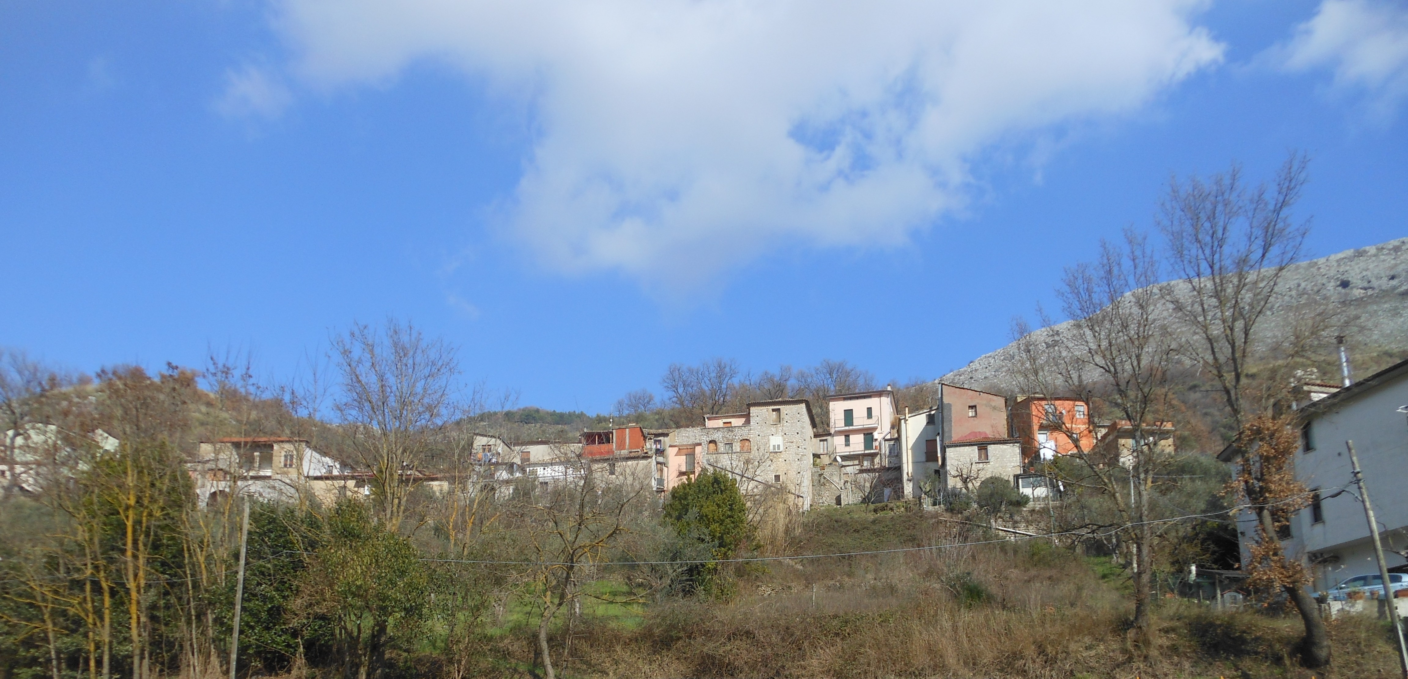 Sirignano, in the italian comune of Foglianise, Province of Benevento, Campania region. Southern side as seen from the route 109 of the province.